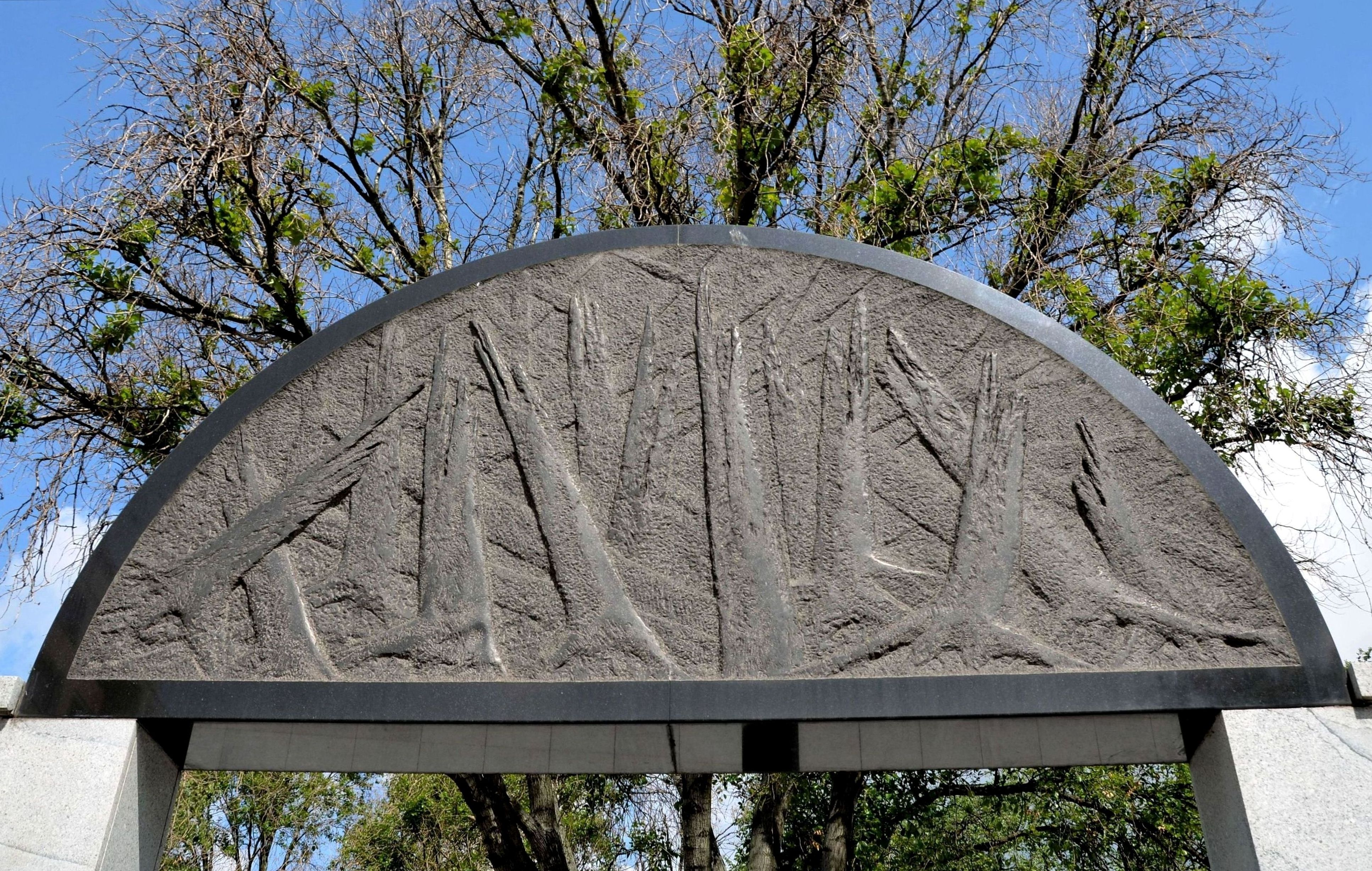 Umschlagplatz Monument in Warsaw. Granite stone with a motive of shattered forest donated by the government and society of Sweden